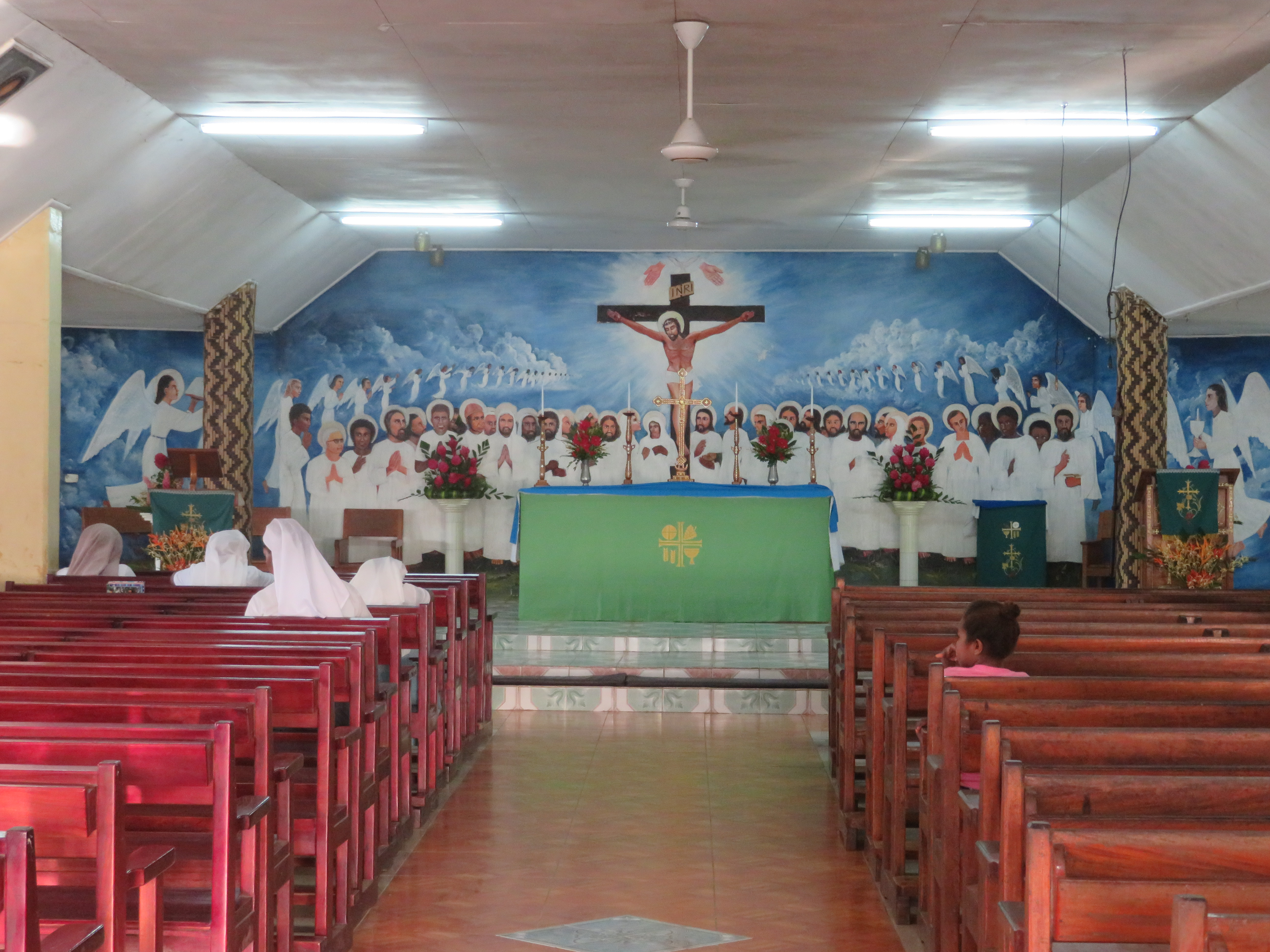 All Saints Anglican Church, Honiara, Solomon Islands